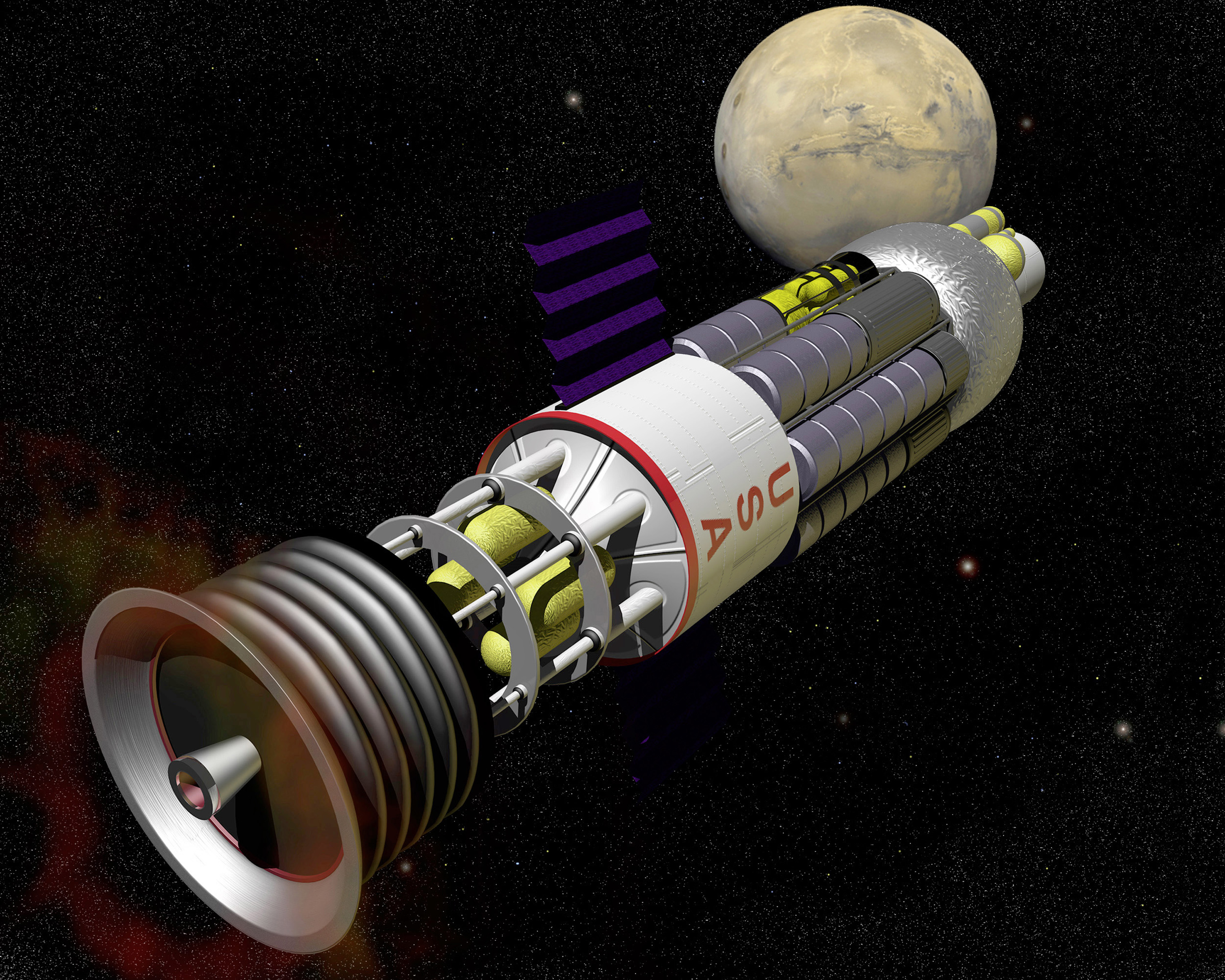 In the 1960's U.S. Government laboratories, under Project Orion, investigated a pulsed nuclear fission propulsion system. Small nuclear pulse units would be sequentially discharged from the aft end of the vehicle. A blast shield and shock absorber system would protect the crew and convert the shock loads into a continuous propulsive force.